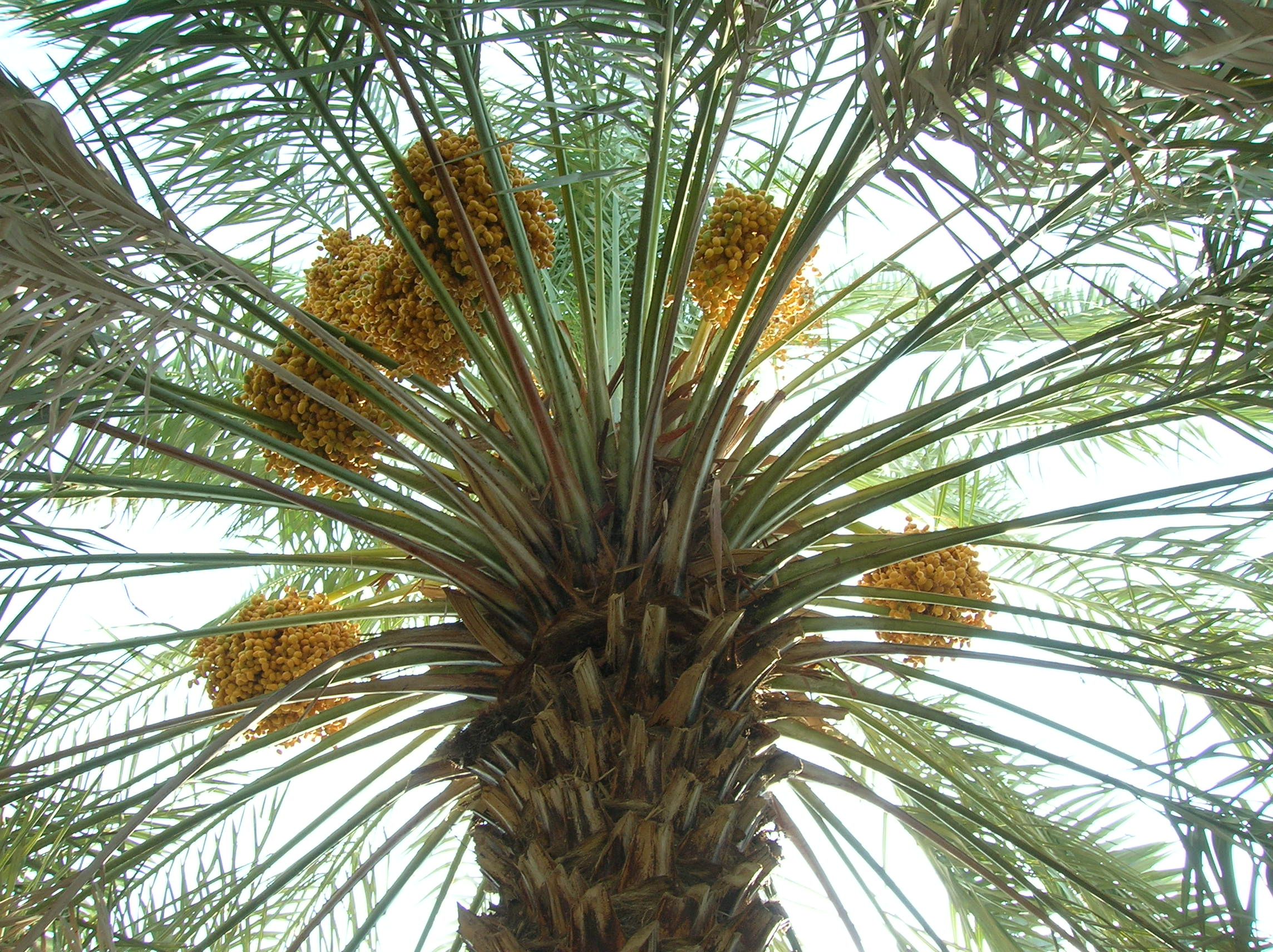 Date palm with fruits at the Abdul Aziz Date Farm in Medina.